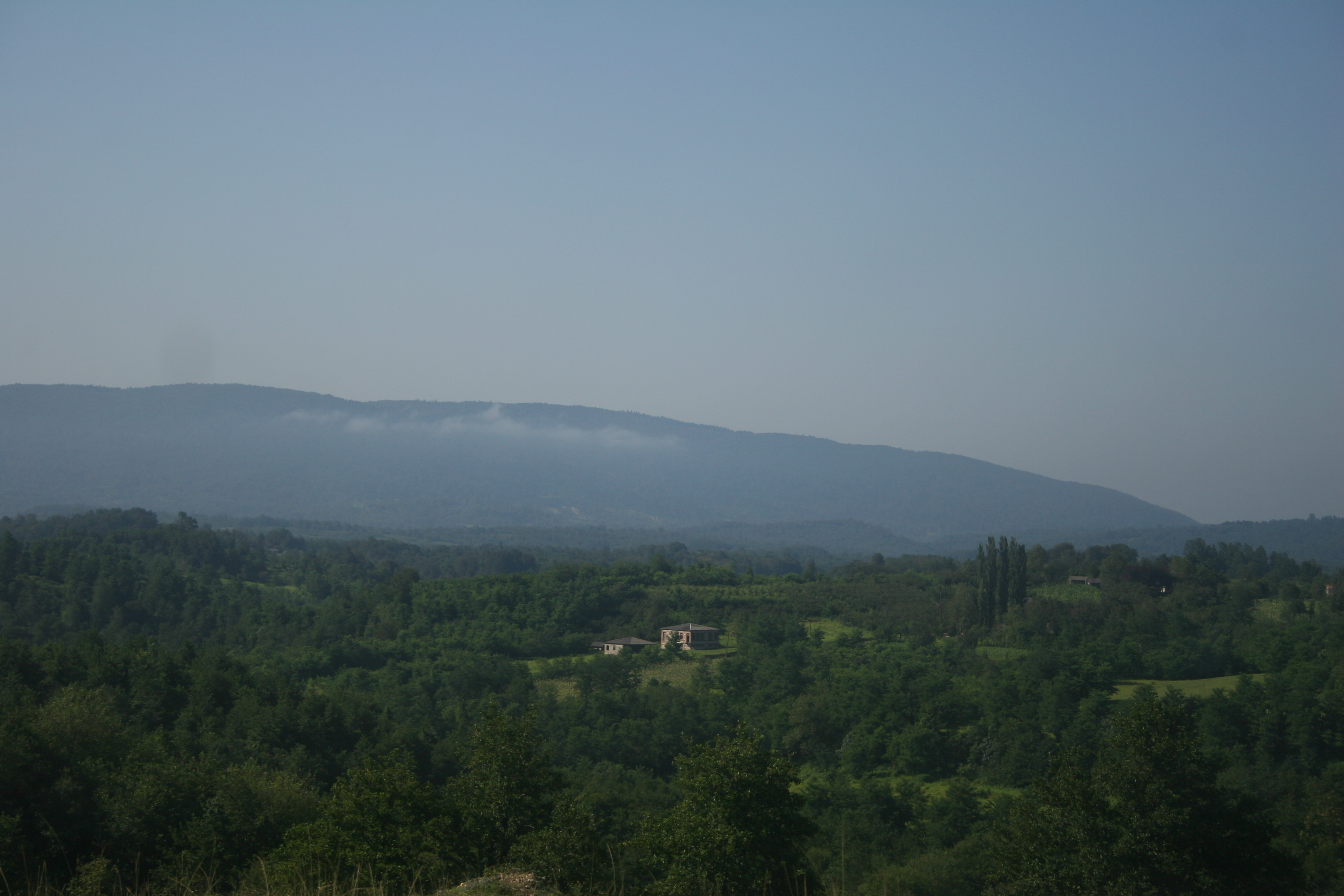 Common landscape of Megrelia (Samegrelo)